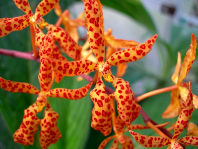 Flowers of Renanthera monachica